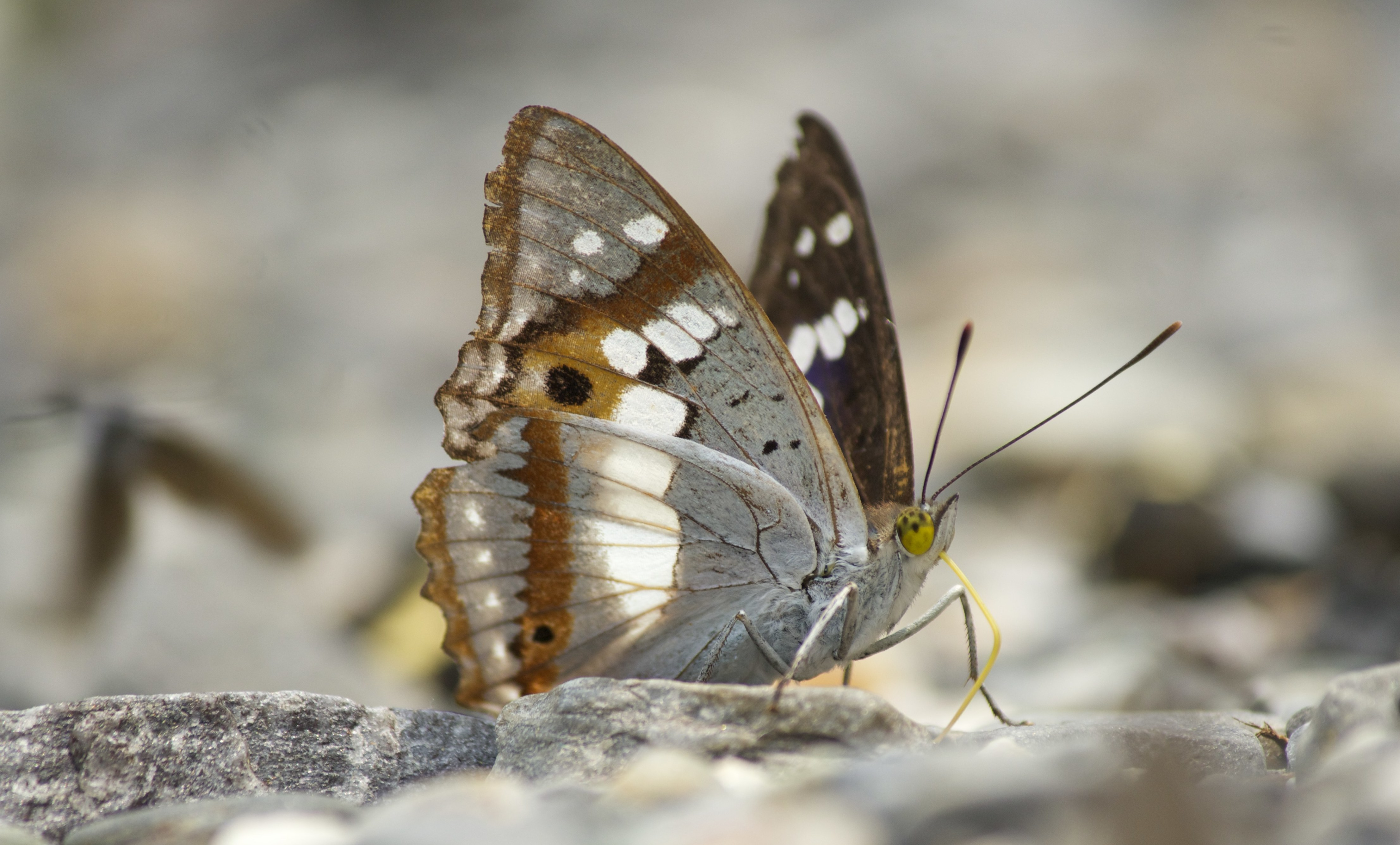 This image was taken in the project Wiki Loves Butterfly.Partially open wing position of Mimathyma ambica Kollar, 1844 – Indian Purple Emperor